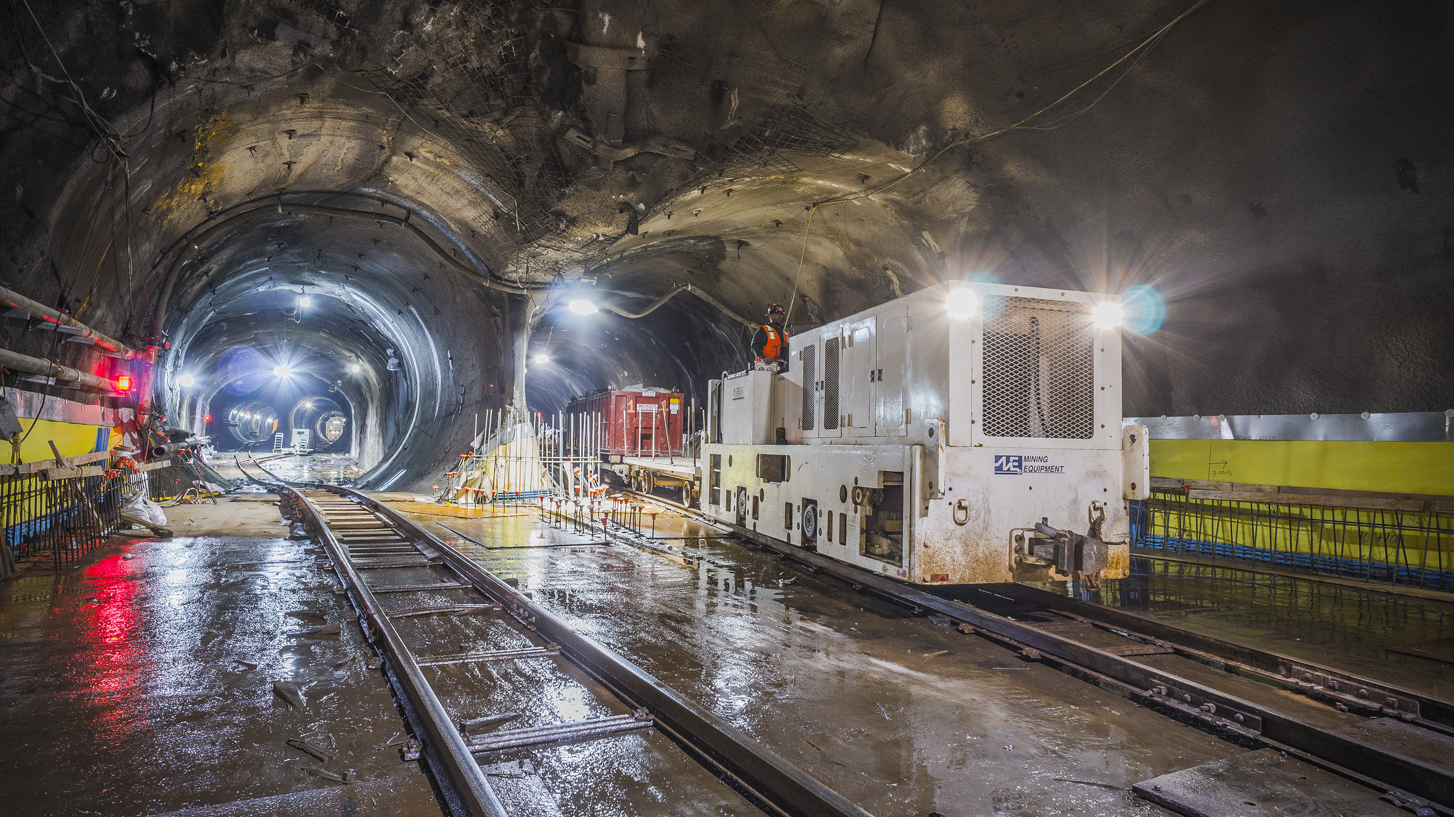 Progress on the Grand Central Terminal side of the East Side Access Project as of May 21, 2014. Photo: MTA Capital Construction / Rehema Trimiew